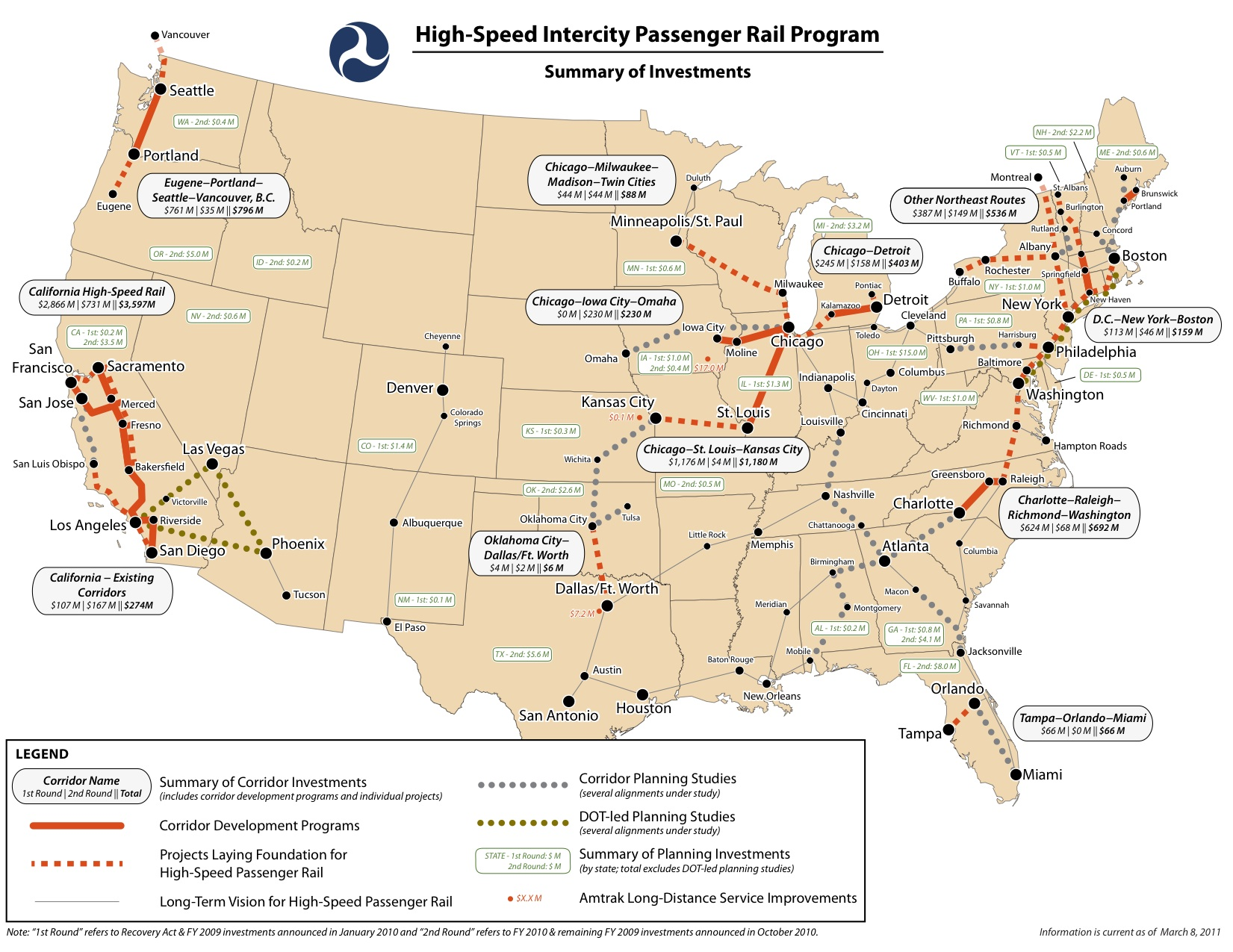 A map of future high-speed rail developments in the United States.